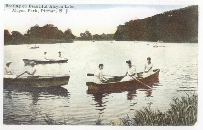 Alcyon Lake, Pitman, New Jersey. believed to be public domain